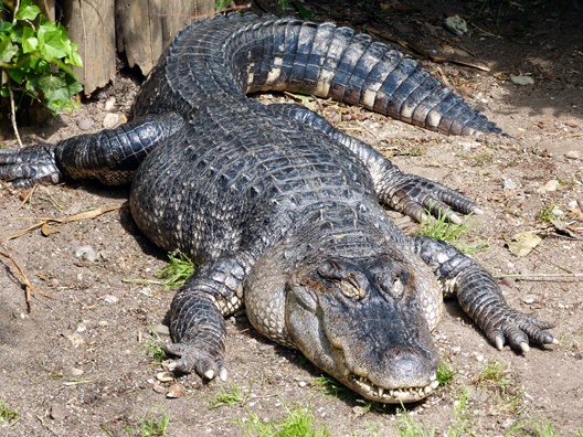 Alligator Königswinter